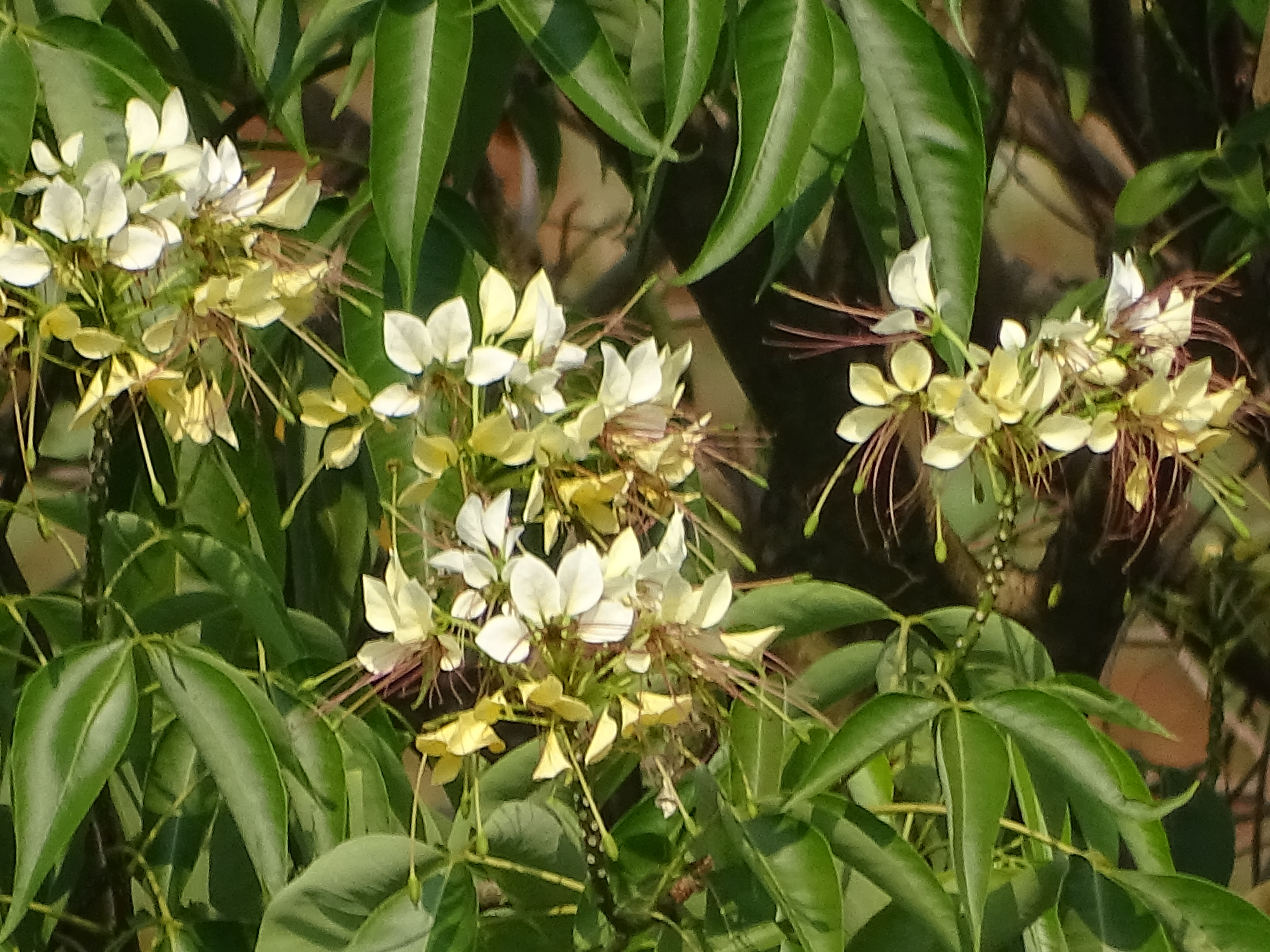 Crataeva nurvala